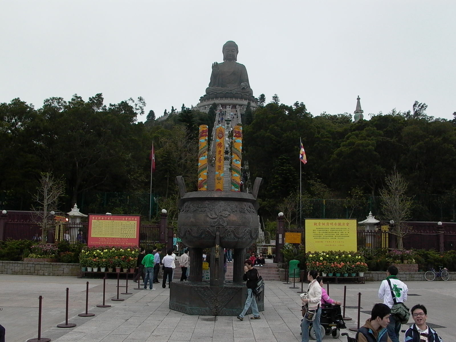 Treasure tripod in memorial of Hong Kong's return